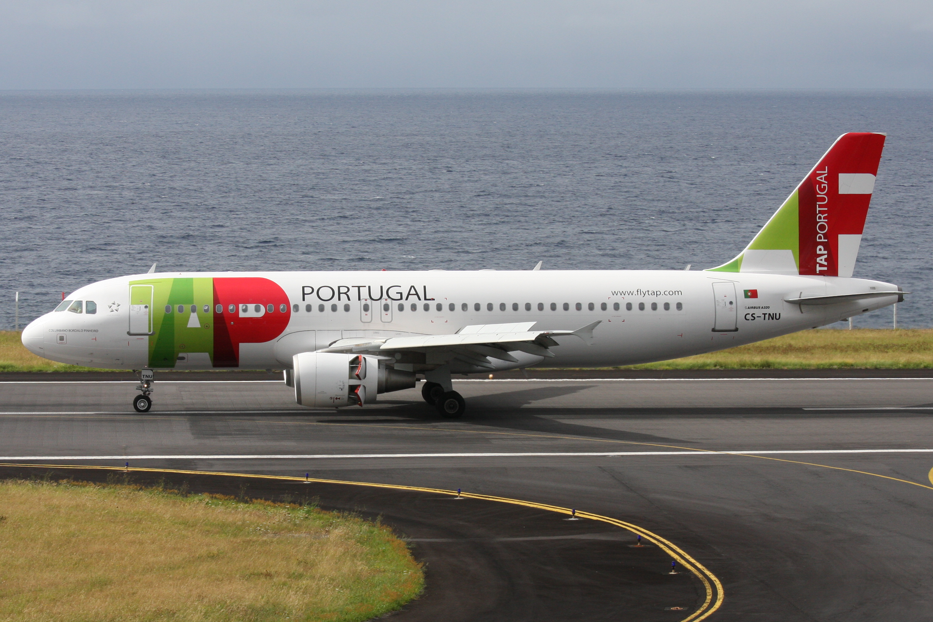 An Airbus A320 of TAP landing in Horta Airport